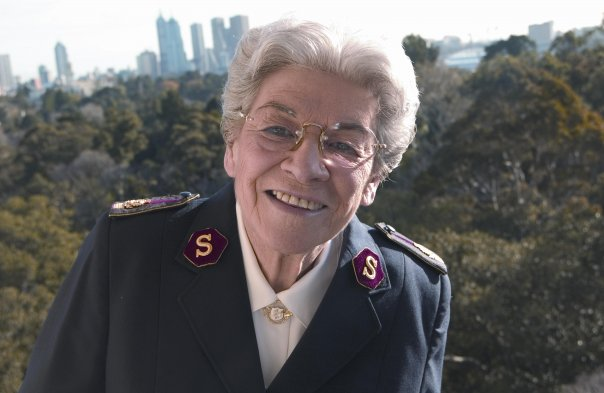 General Eva Burrows, at The Australia Southern Territory Training College